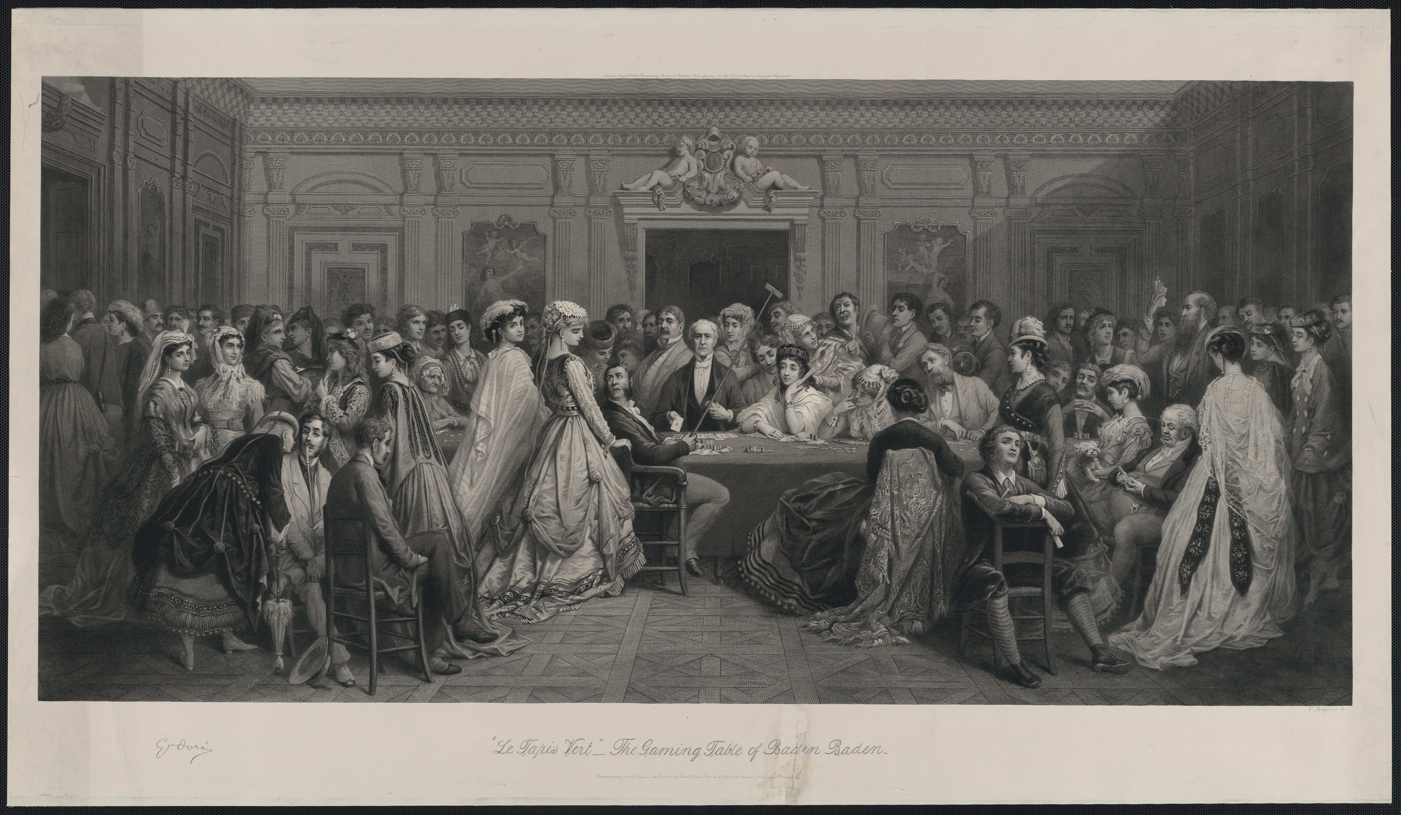 Title: Le tapis vert, the gaming table of Baden Baden Physical description: 1 print : engraving ; 23 5/8 x 41 1/16 in. Notes: This record contains unverified data from PGA shelflist card.; Copyright by Franklin Hunter Potter.; Associated name on shelflist card: Ridgway.; W. Ridgway, sc.; Title from item.